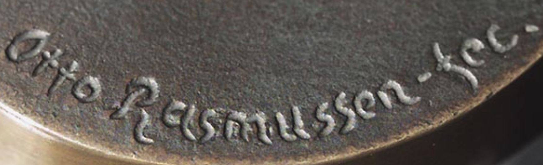 Signature of German sculptor Otto Rasmussen